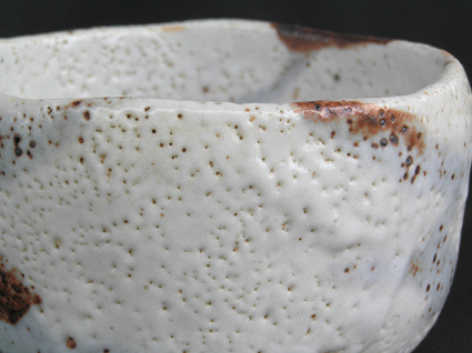 Orange skin surface. Shino tea bowl.